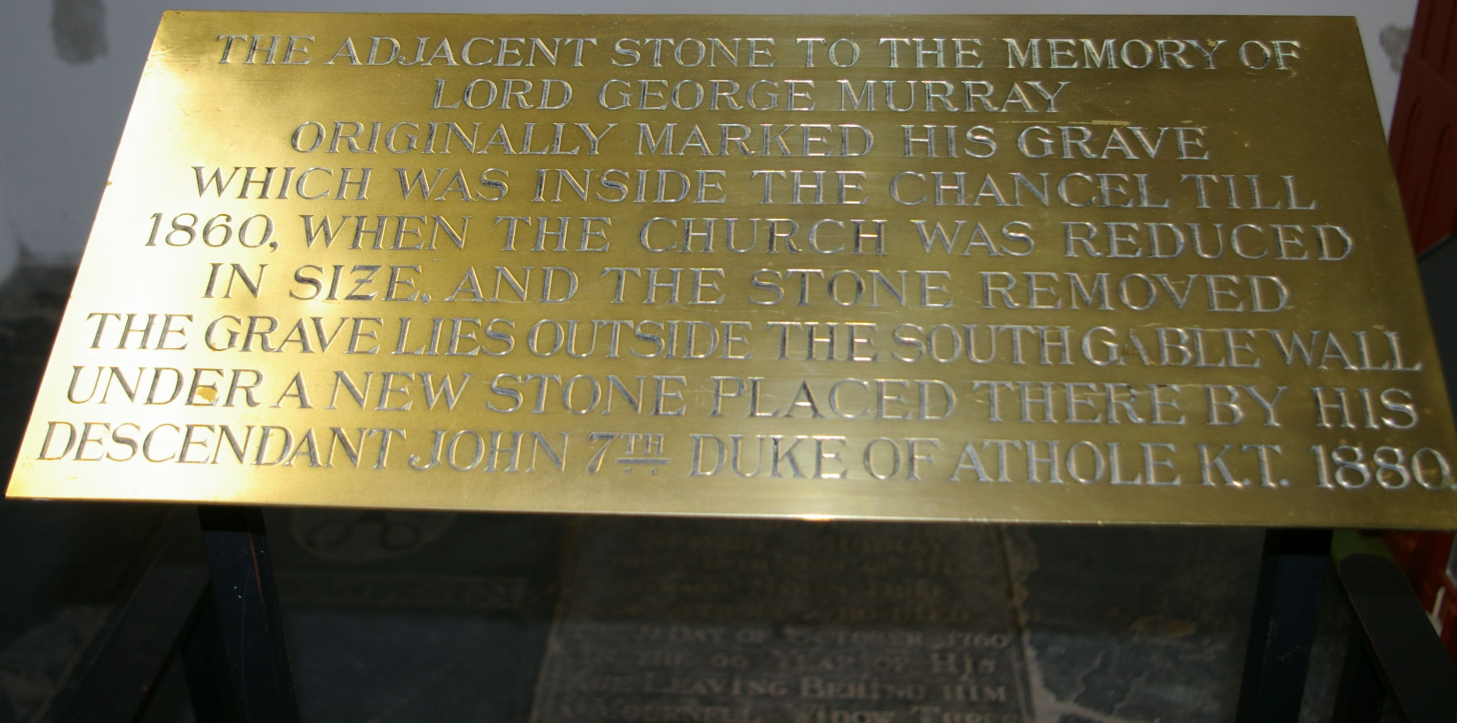 memorial stone Lord George Murray inside Bonifacius church, Medemblik, Holland